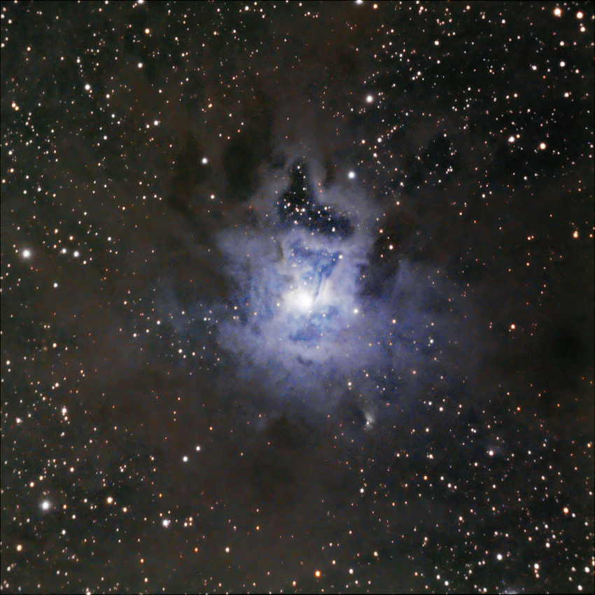 Iris Nebula LBN 487 and NGC 7023 in Cepheus